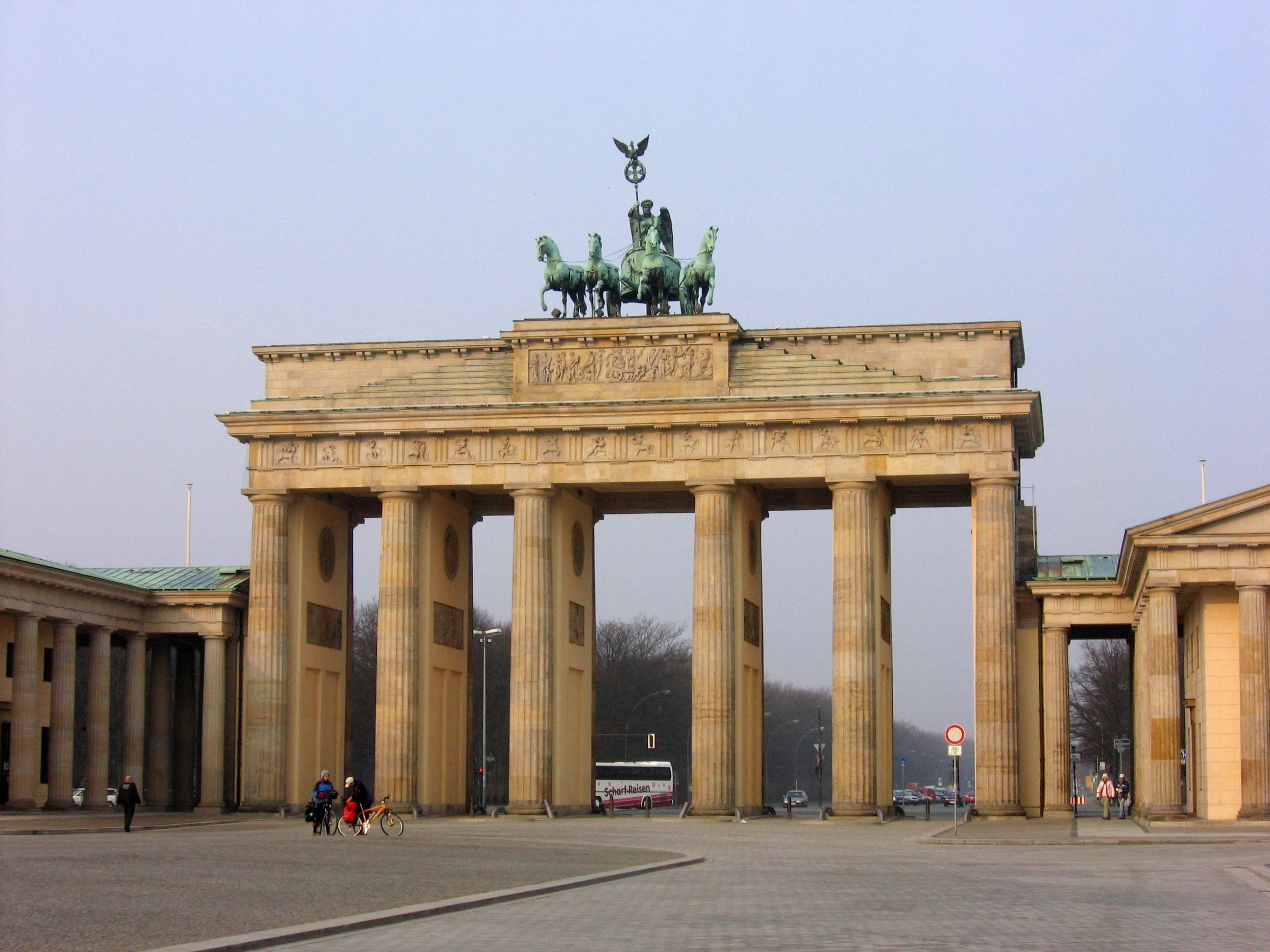 Brandenburg Gate